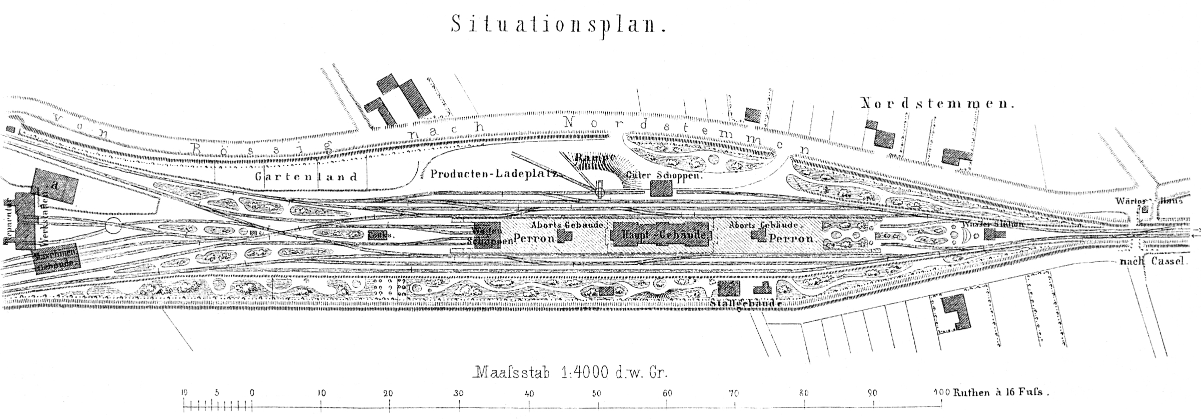 Ground plan of the railway station Nordstemmen 1861.